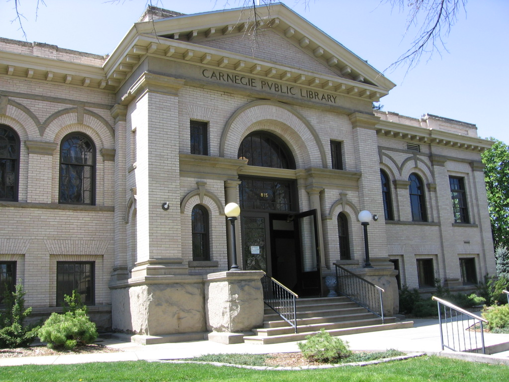 The Carnegie Library — in Boise, Idaho. The Neoclassical and Romanesque Revival style library was completed in 1905, and is on the National Register of Historic Places in Boise County, Idaho.